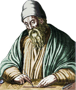 Eukleides of Alexandria